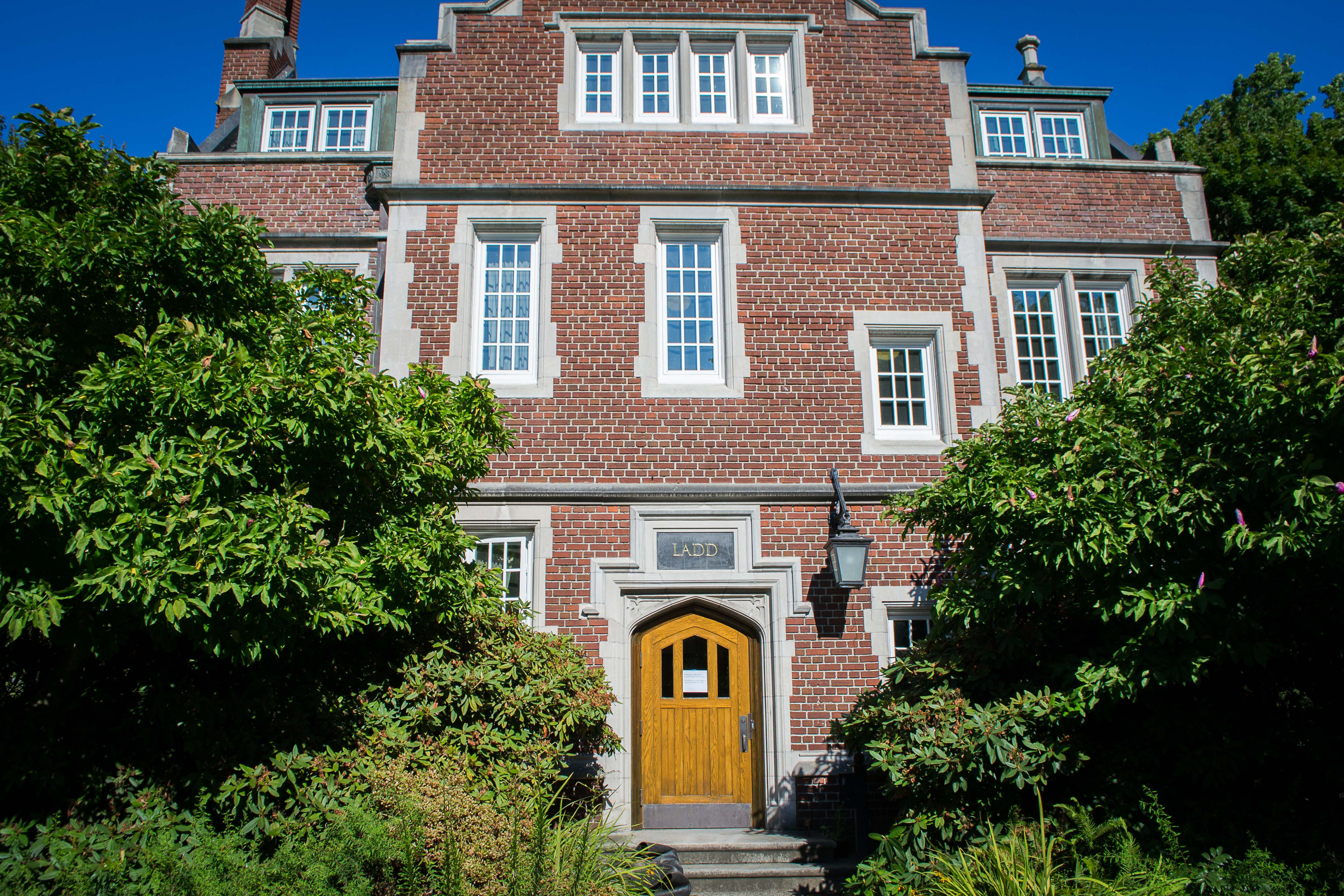 Named for William Mead Ladd, Reed College original land donor and chairman of the board of regents, Ladd is the west entrance to the Old Dorm Block residence hall.